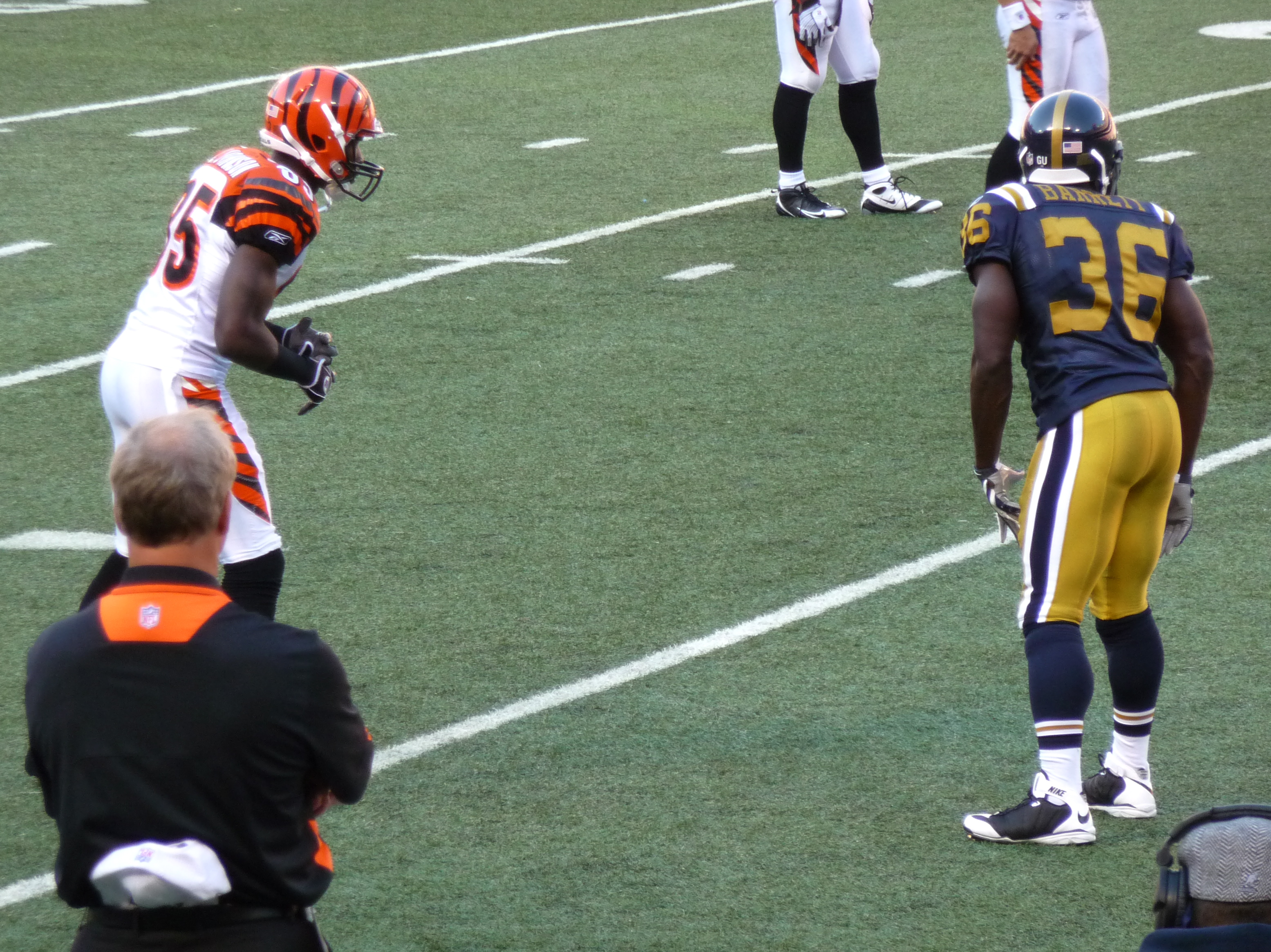 David Barrett squares off against Chad Ocho Cinco.